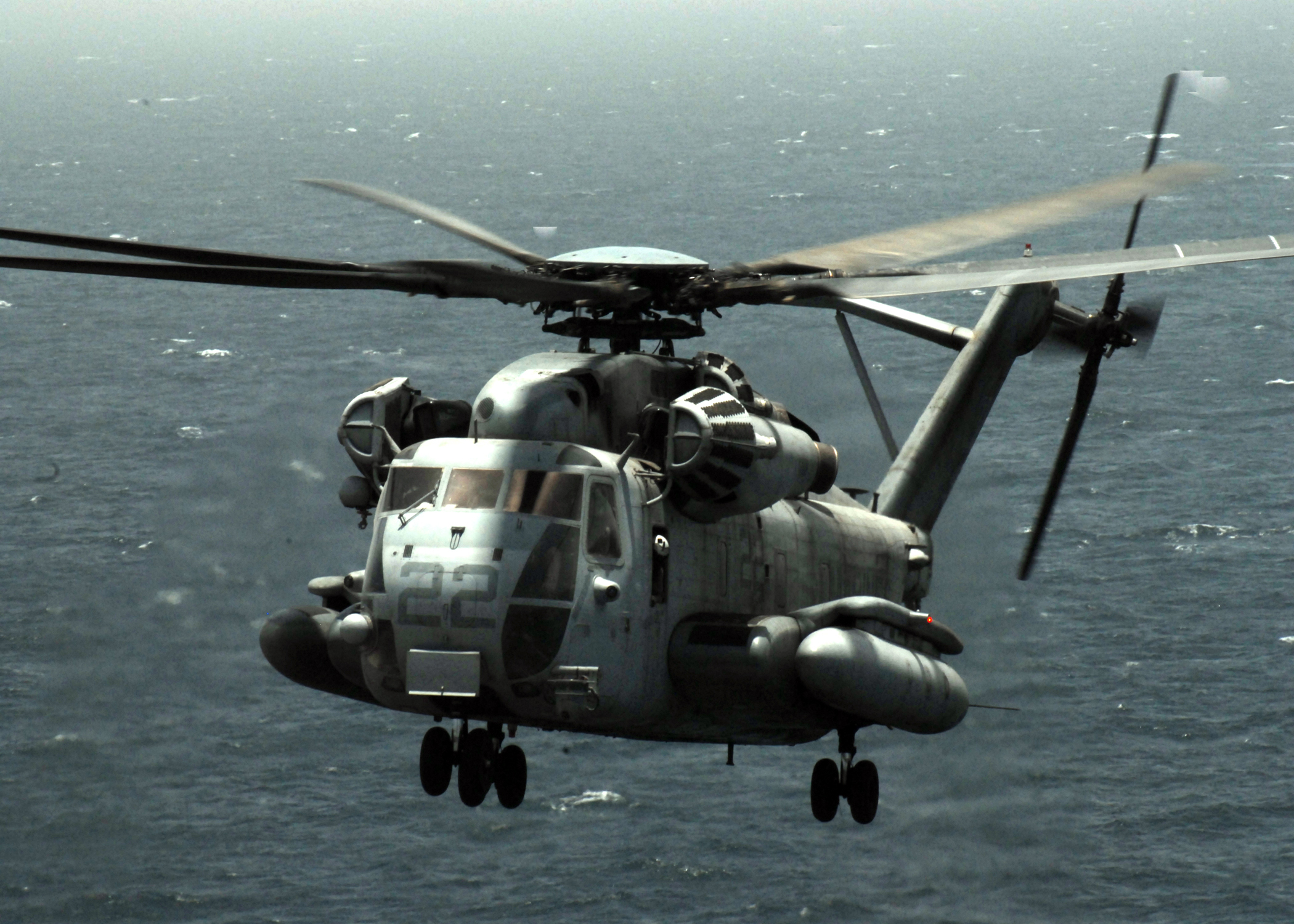 PERSIAN GULF (July 10, 2008) A CH-53E Super Stallion helicopter assigned to Marine Medium Helicopter Squadron (HMM) 165 prepares to land on the flight deck of the amphibious assault ship USS Peleliu (LHA 5). Peleliu is deployed supporting maritime security operations in the U.S. 5th Fleet area of responsibility. U.S. Navy photo by Mass Communication Specialist Seaman Sarah E. Bitter (Released)